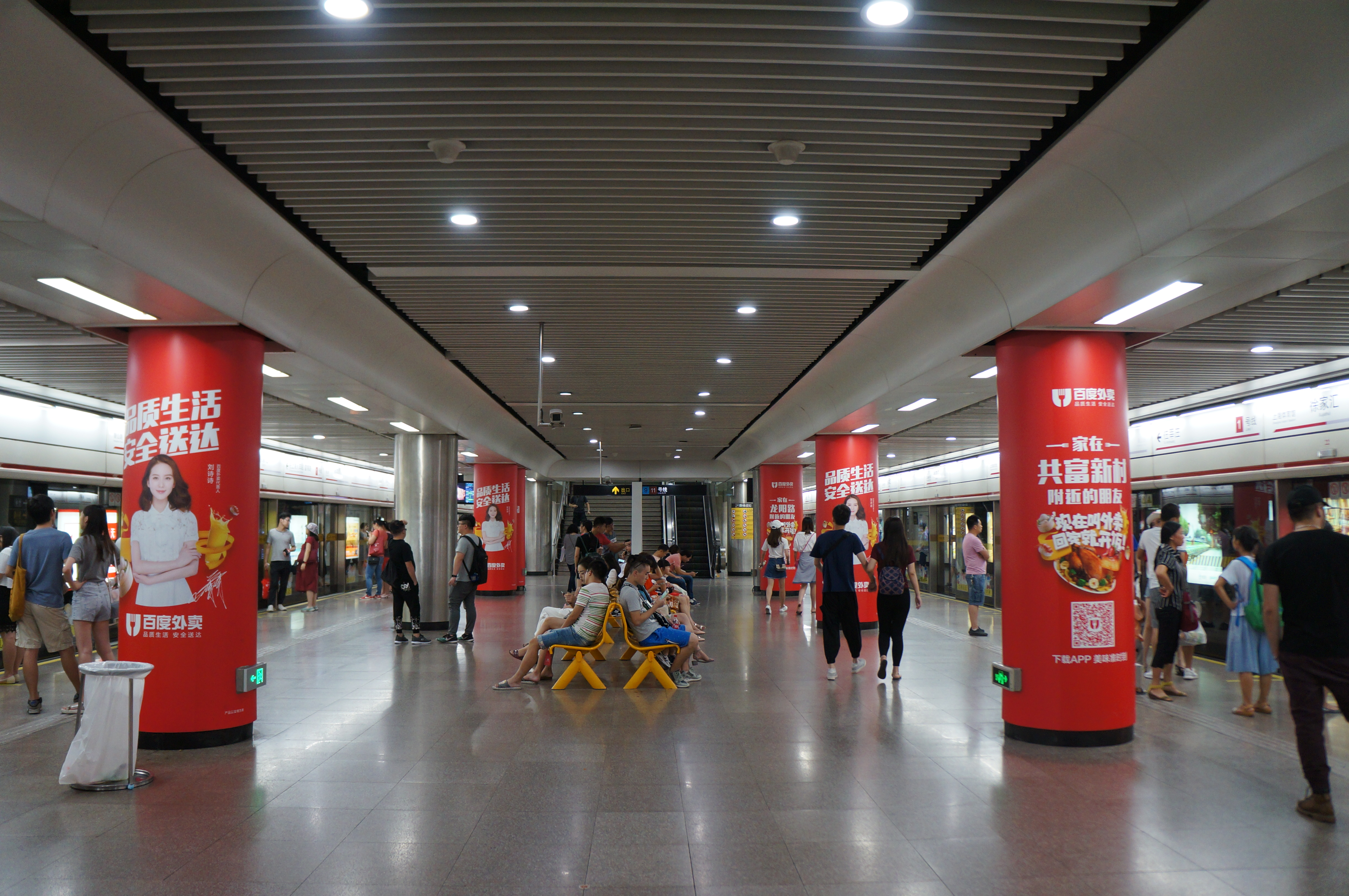 201609 Platform for L1 of Xujiahui Station